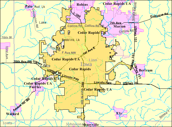 Cedar Rapids, Iowa map